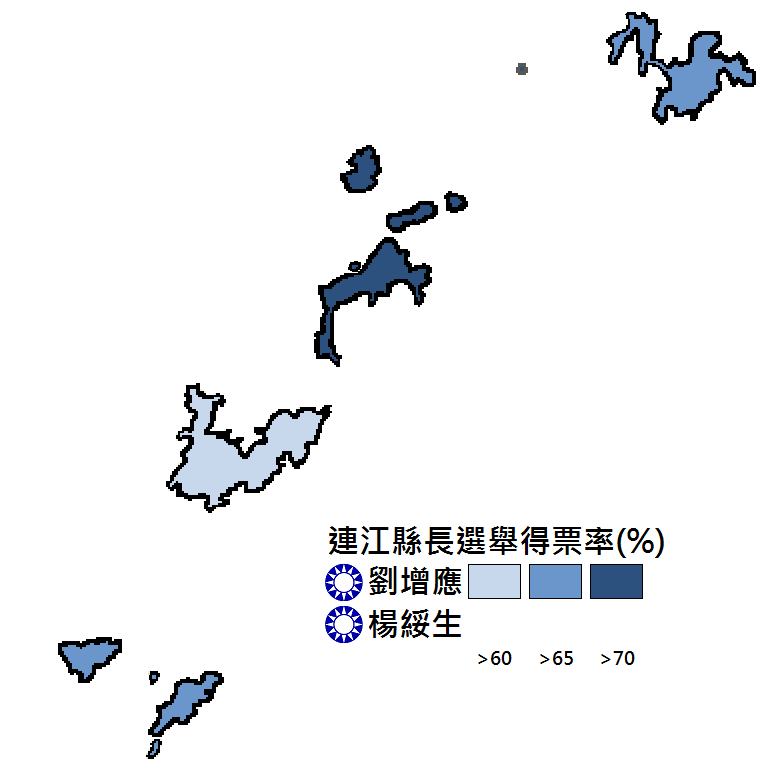 Lienchiang 2014